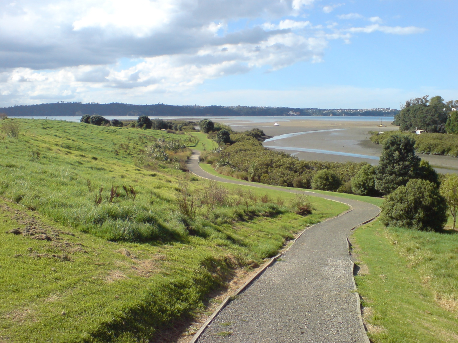 The Meola Reef, a volcanic outflow into the Waitemata Harbour, New Zealand.